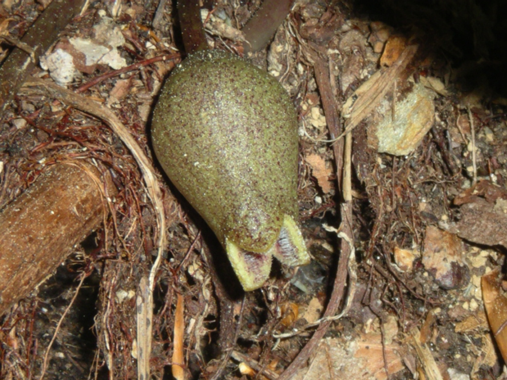 Hexastylis arifolia